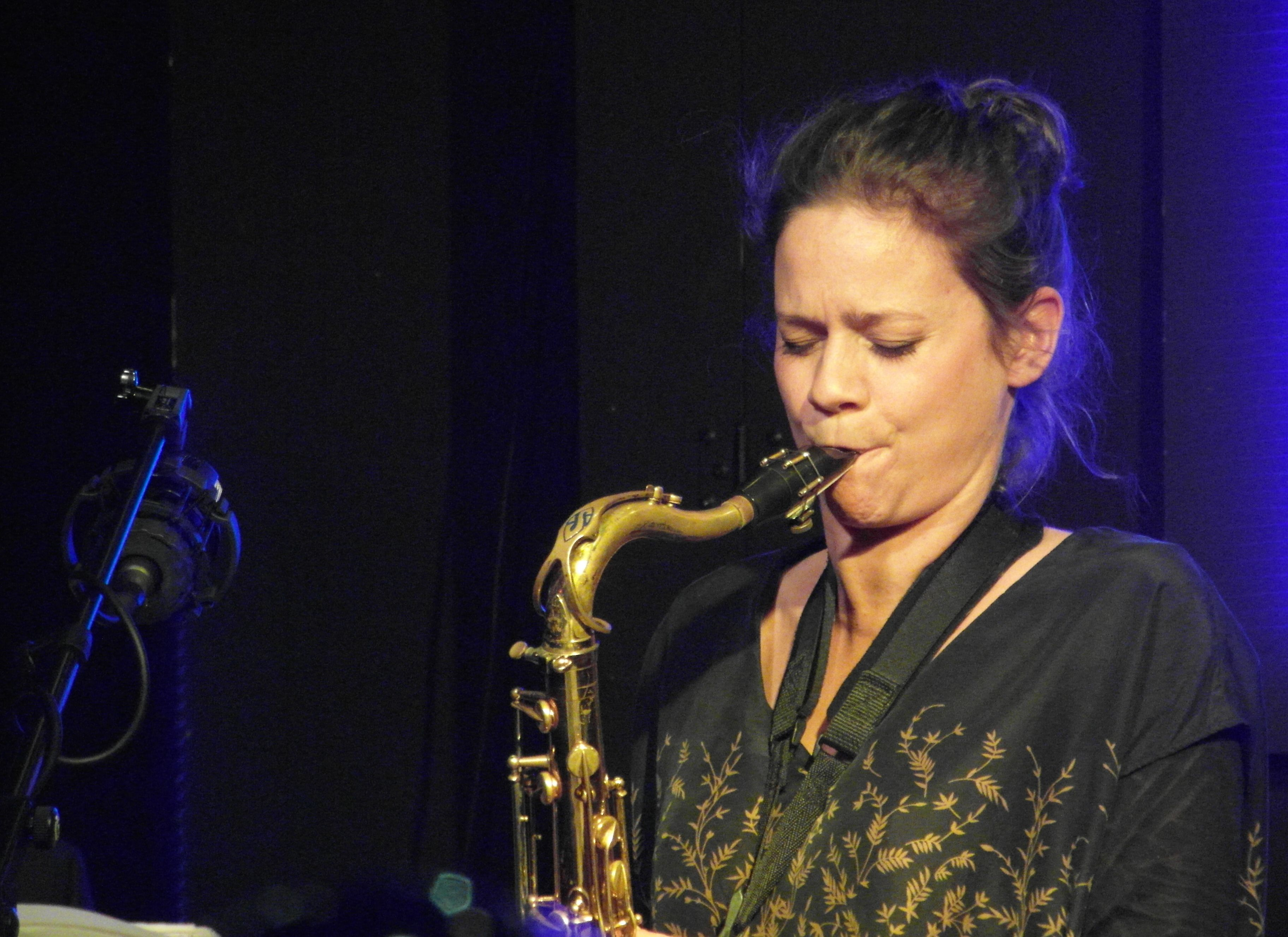 Sophie Alour during the concert at the 1988 jazz club in Rennes (France).